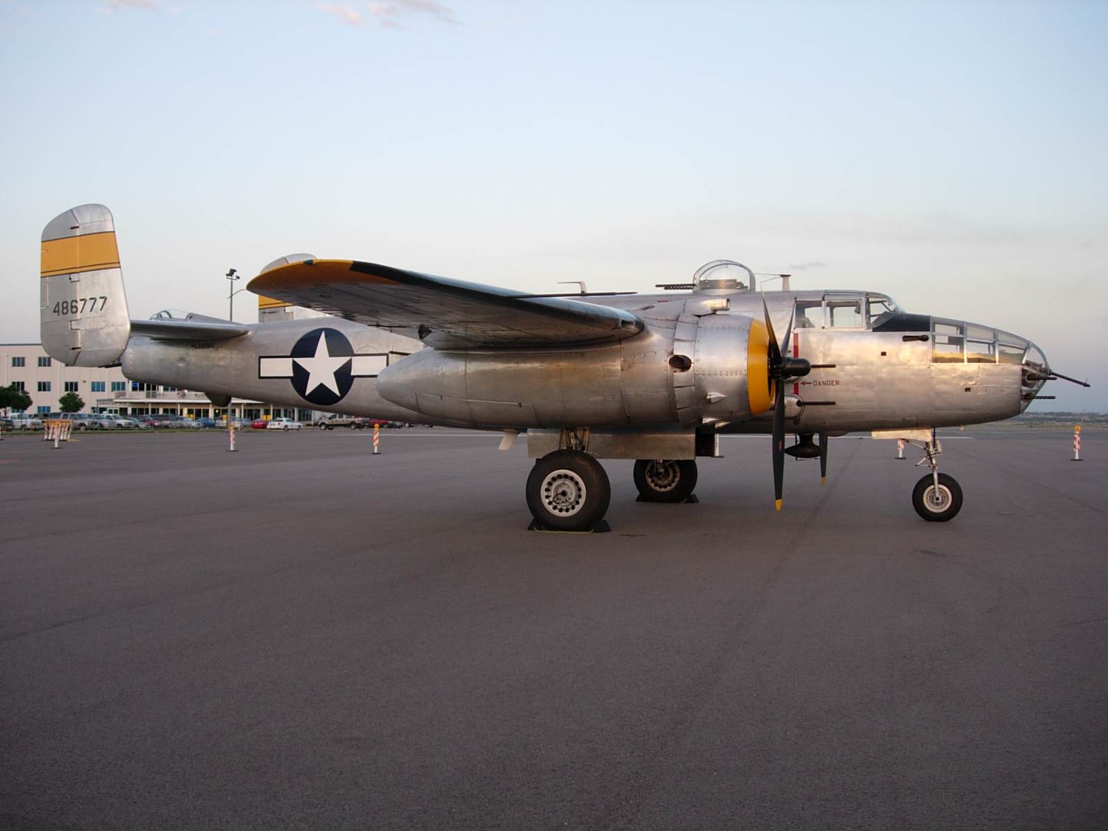 B-25J N345BG '486777' at the Jeffco (now Rocky Mountain Metropolitan) Airport open house, Colorado